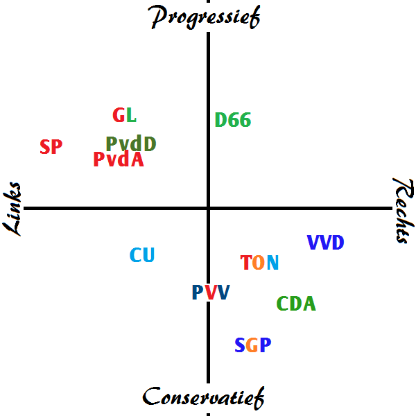 The Dutch political landscape in 2010 according to Kieskompas.